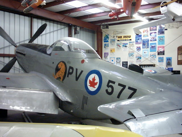 NA P-51D Mustang (9577 RCAF/N151KM, coded 'PV 577') on display at Wings of History Air Museum, San Martin, California.